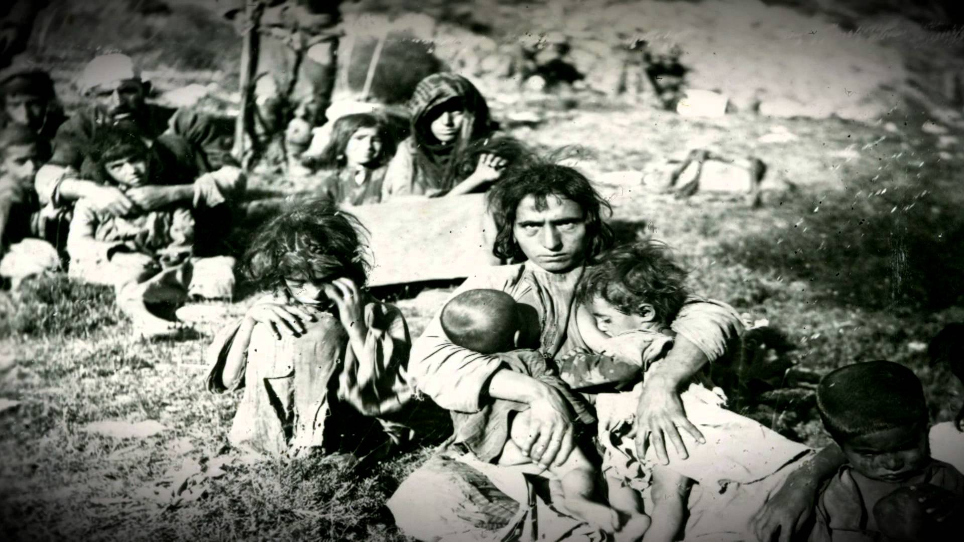 Lost girls of Dersim